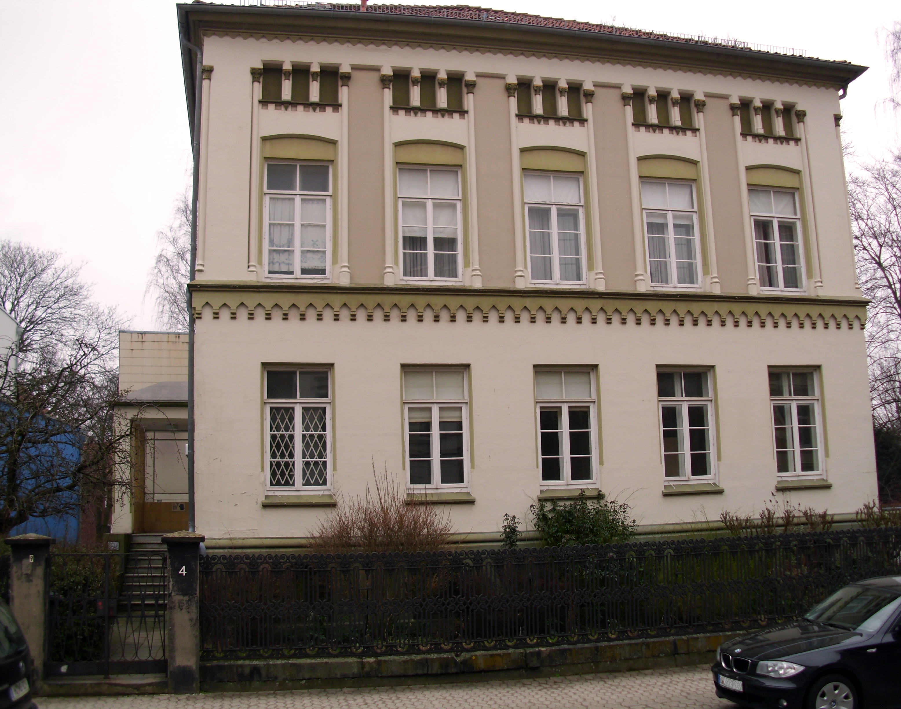 Building Hannover (Lower-Saxony, Germany), Von-Alten-Allee 4. Protected as heritage.